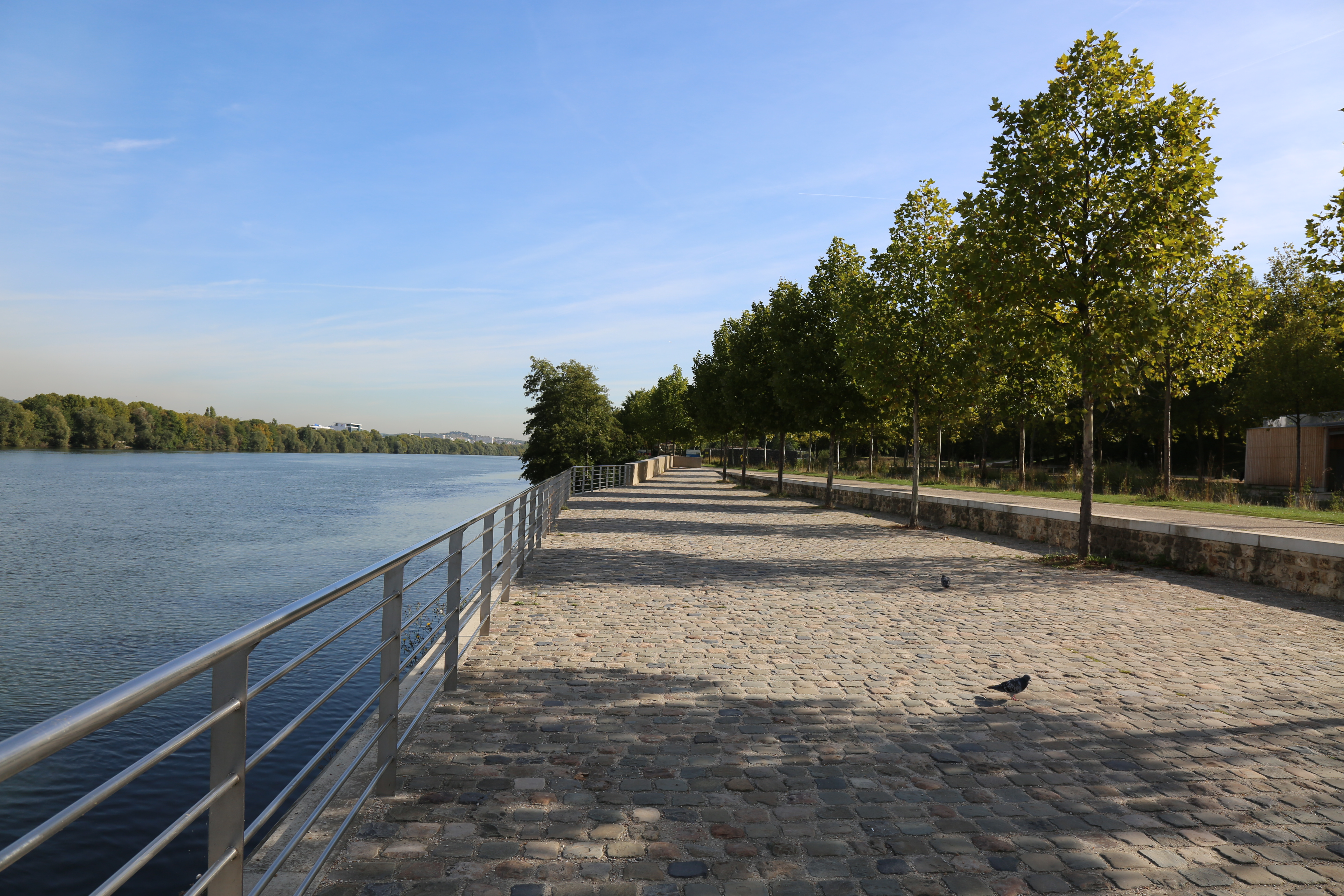 Pierre-Lagravère Park